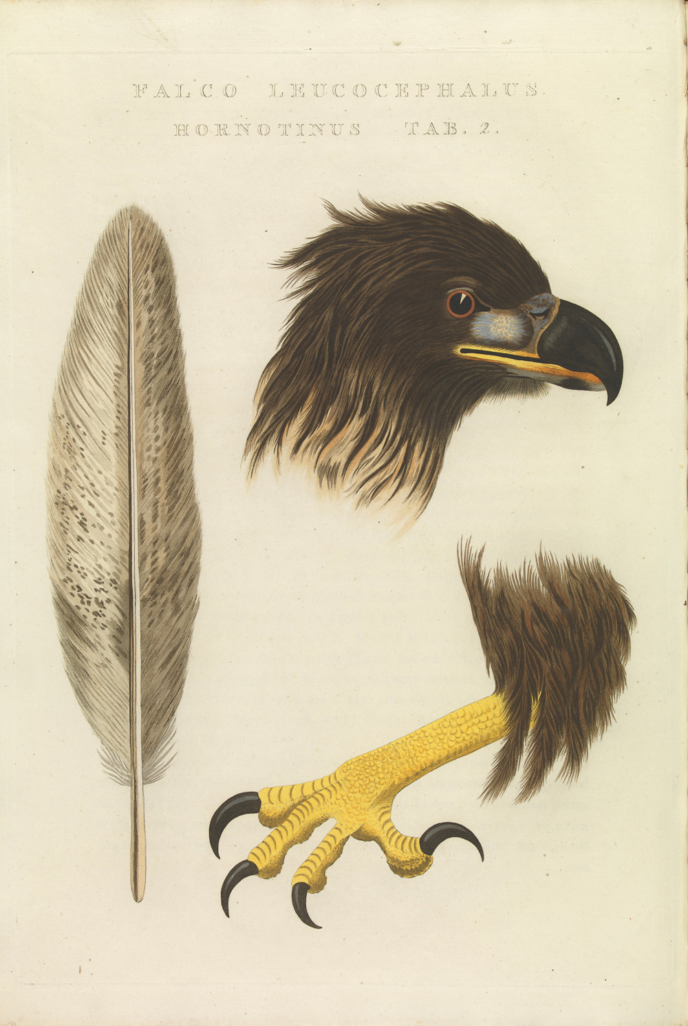 Plate 213 from the Nederlandsche vogelen by Nozeman and Sepp.